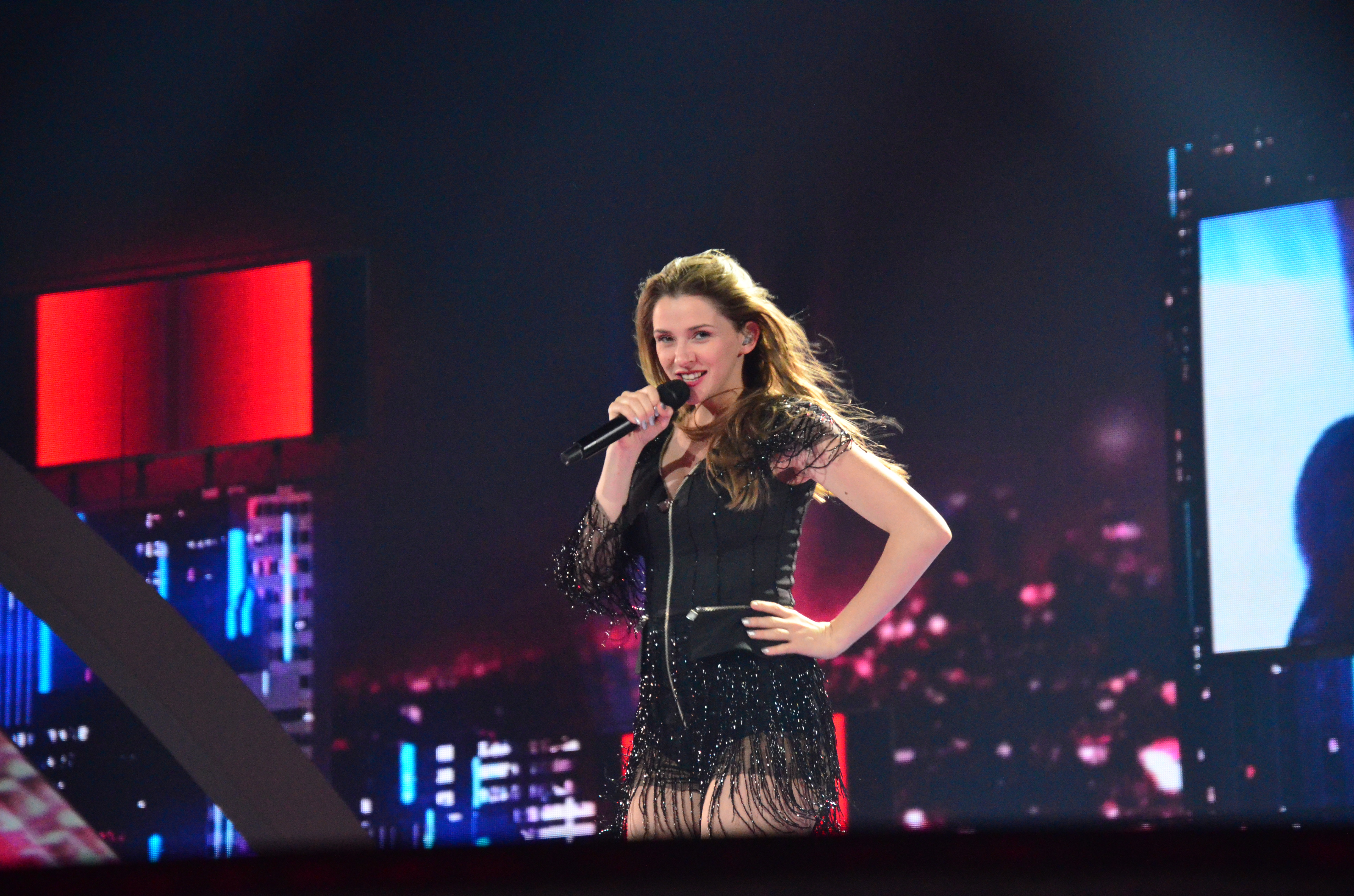 Jana Burčeska performing at the rehearsal of Eurovision Song Contest 2017